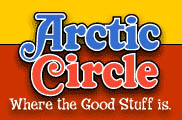 Arctic Circle Restaurants logo